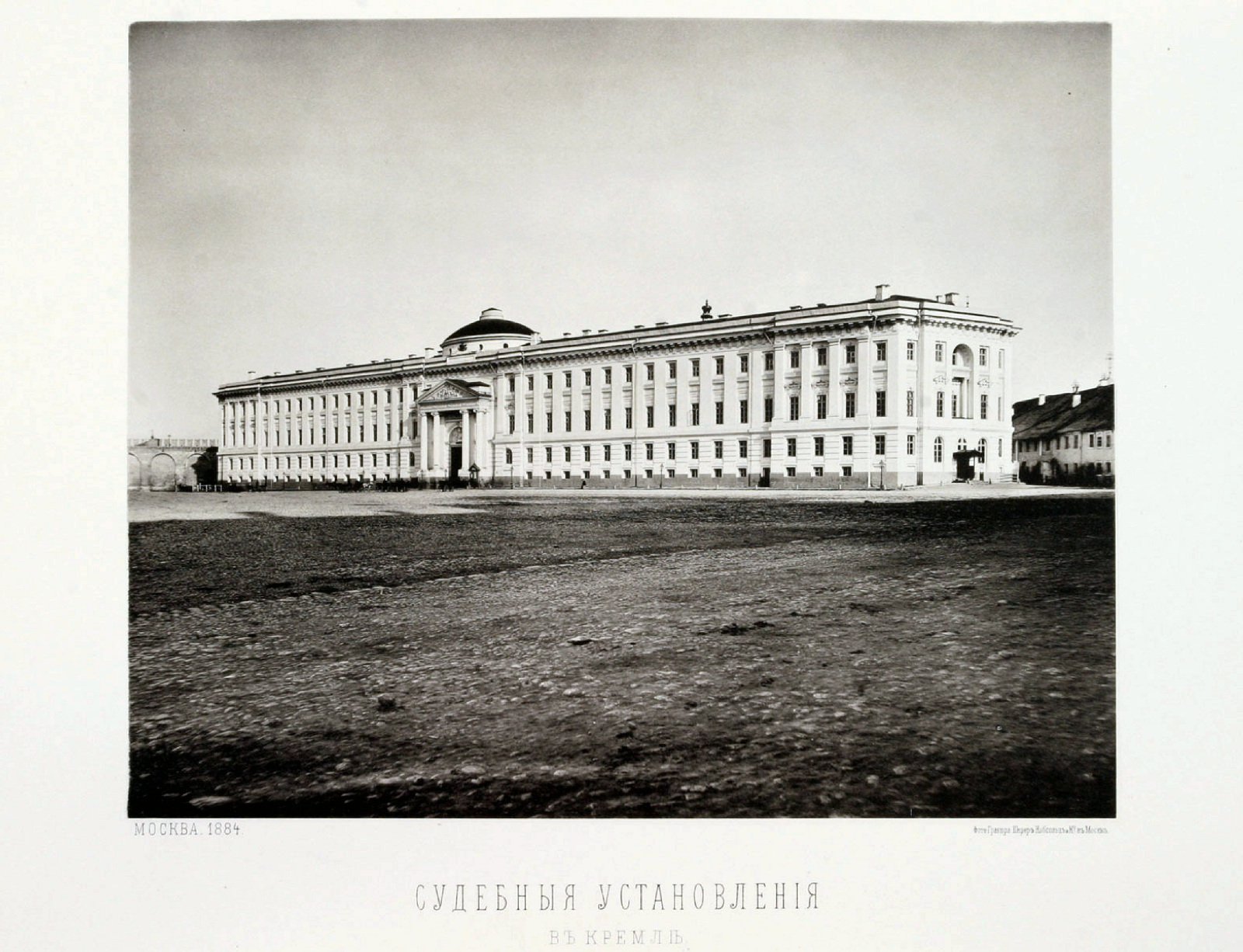 Plate 34: The Court Regulations' building (in Moscow Kremlin; the former and the present-day Kremlin Senate).